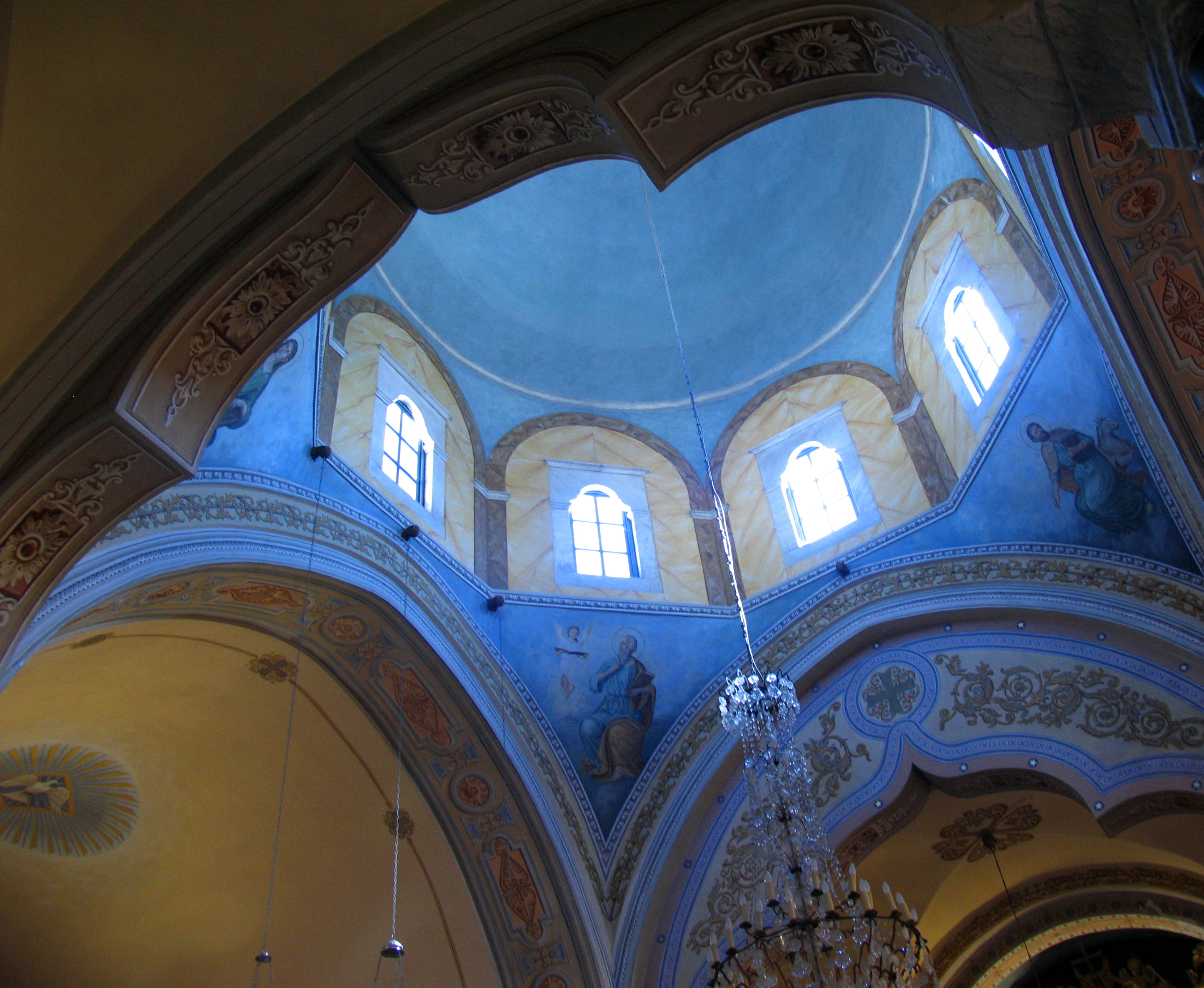 Catholic cathedral St John the Baptist, at Fira, city of Santorini island, Greece.